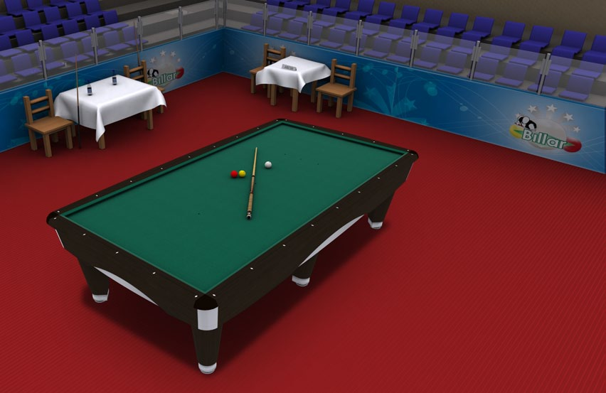 billiard